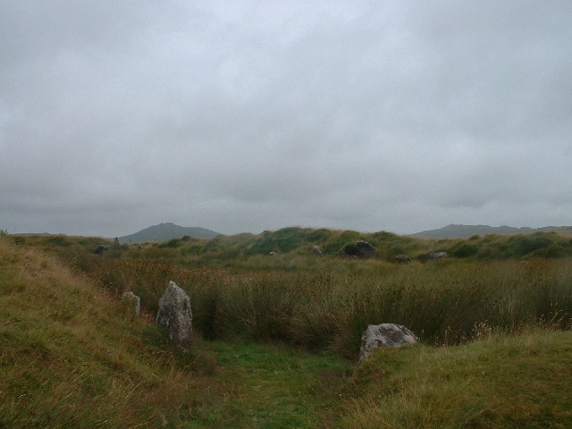 King Arthur's Hall. Ancient Site on Bodmin Moor; Roughtor in the distance